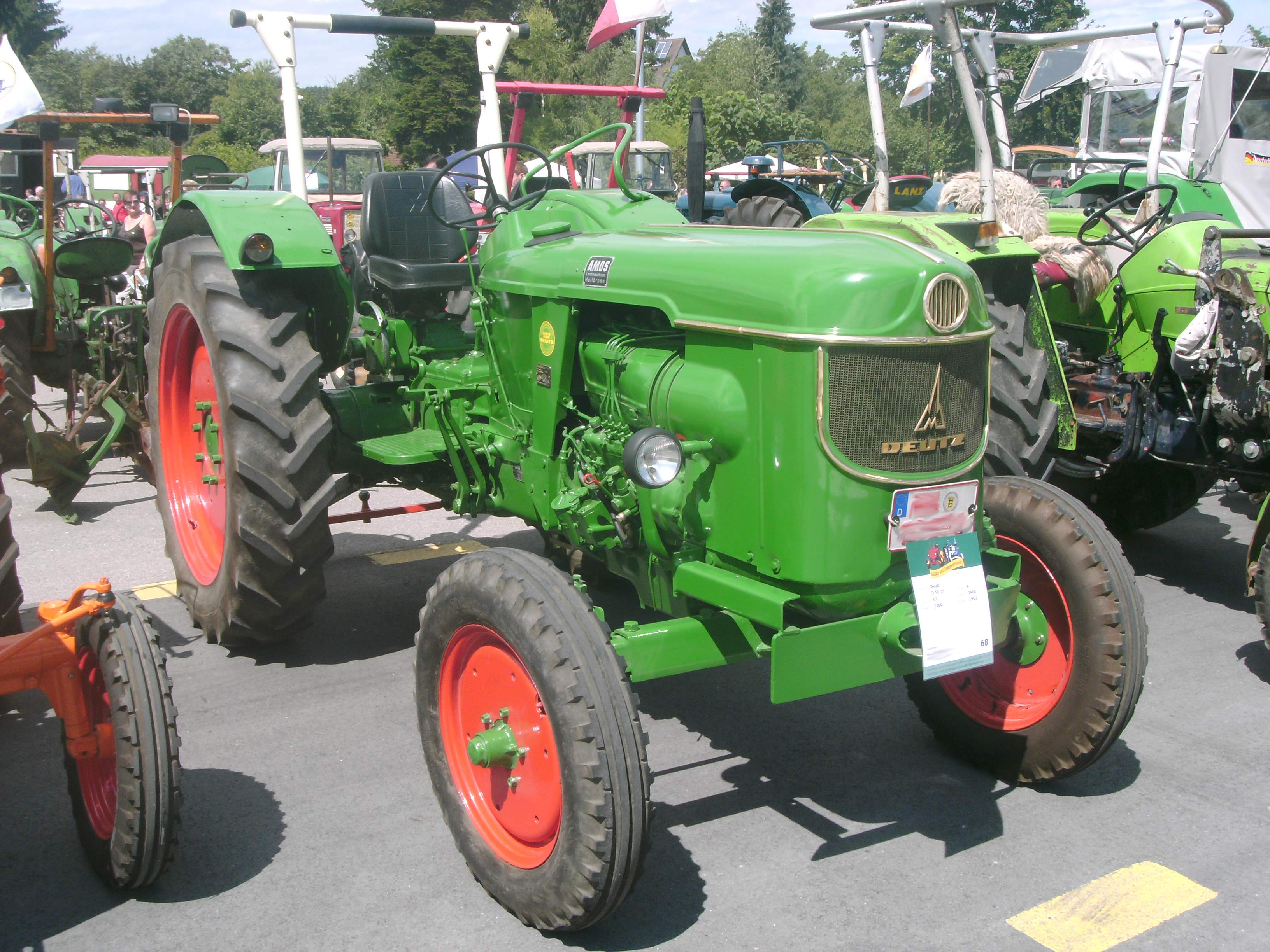 Deutz D50.1S tractor, 52 HP